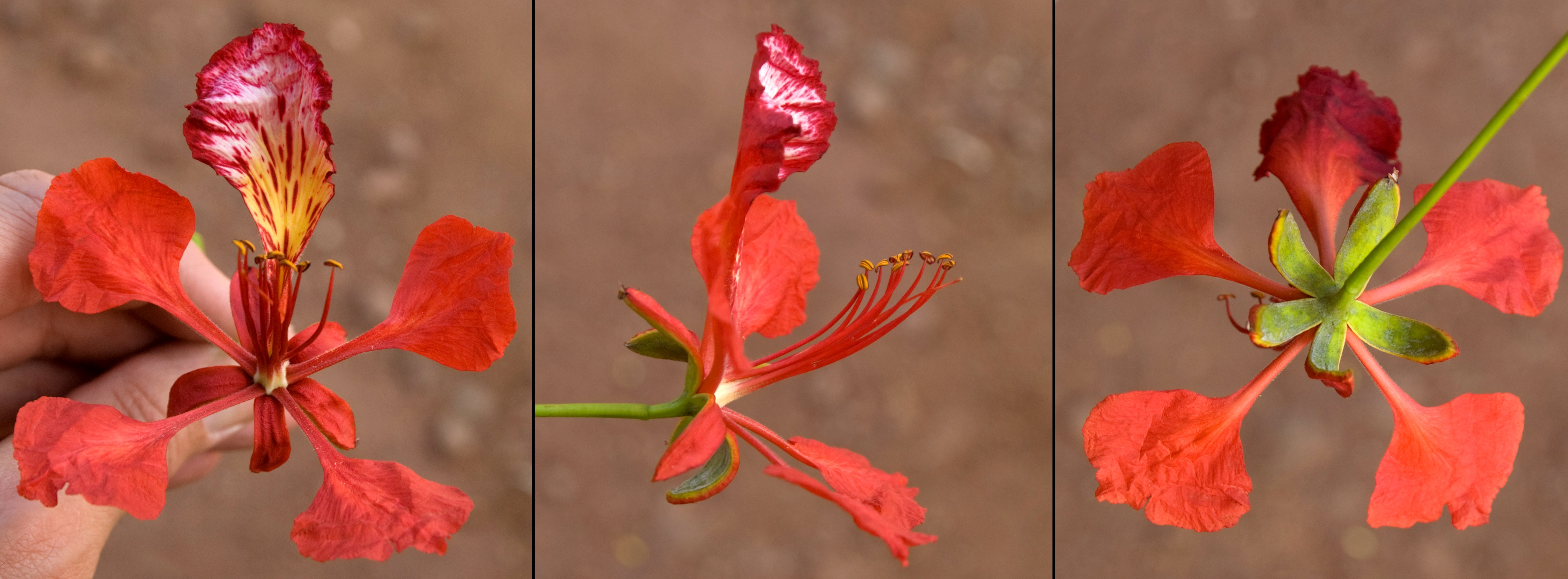 Frontal, lateral and backside view of a flower of Delonix regia (Moshi, Tanzania , January 2014)